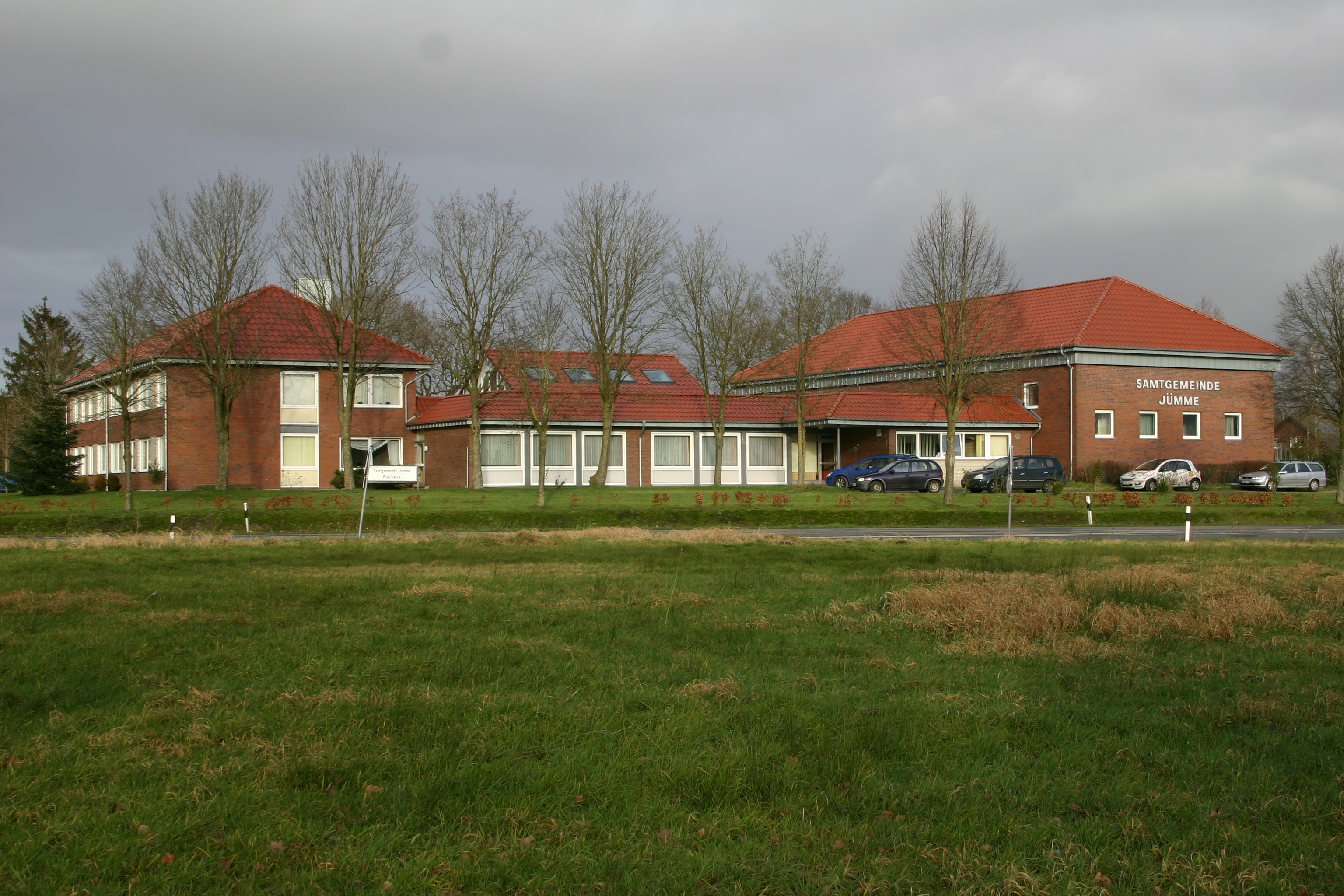 Town hall of the municipality of Jümme in Filsum, district of Leer, East Frisia, Germany